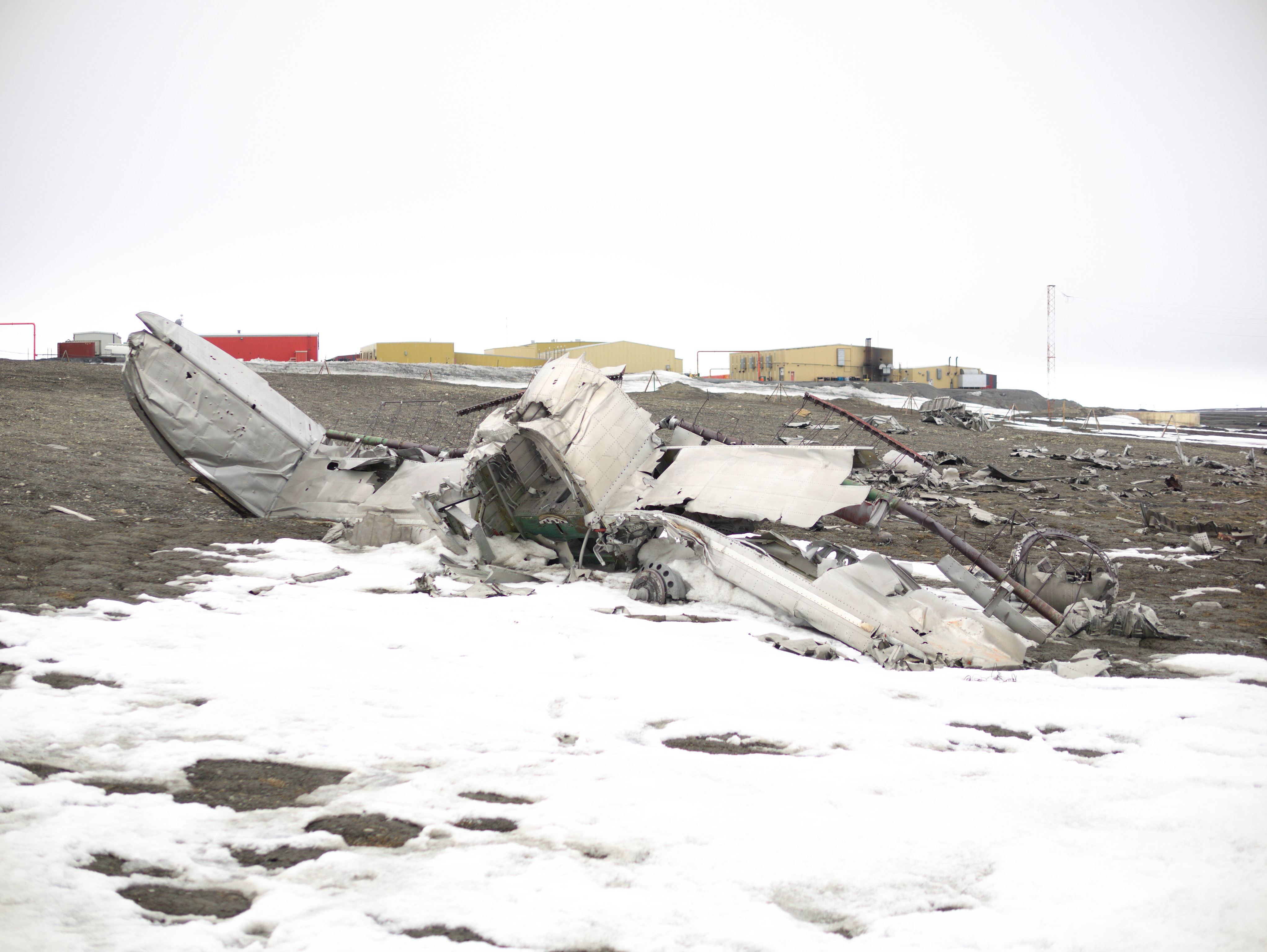 Remains of Lancaster KB965 in Alert, Nunavut.